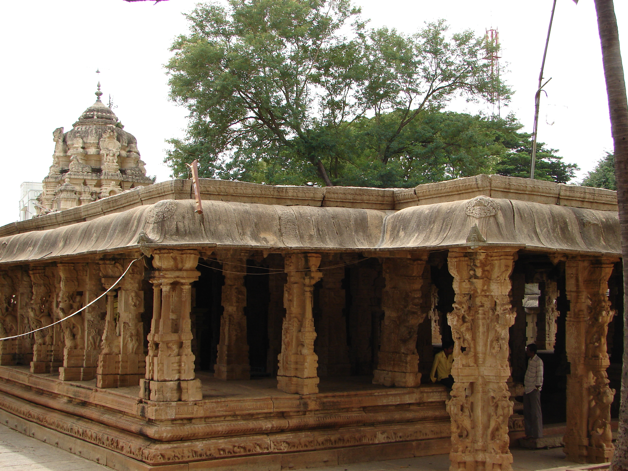 This photograph was taken by me at the Someshvara temple (also spelt Someshwara or Somesvara) in Kolar, Kolar district, Karnataka state, India. The Someshvara temple is an ornate example of early 14th century architecture of the Vijayanagara Empire. Seen here is a frontal view of the maha mantapa (main hall).